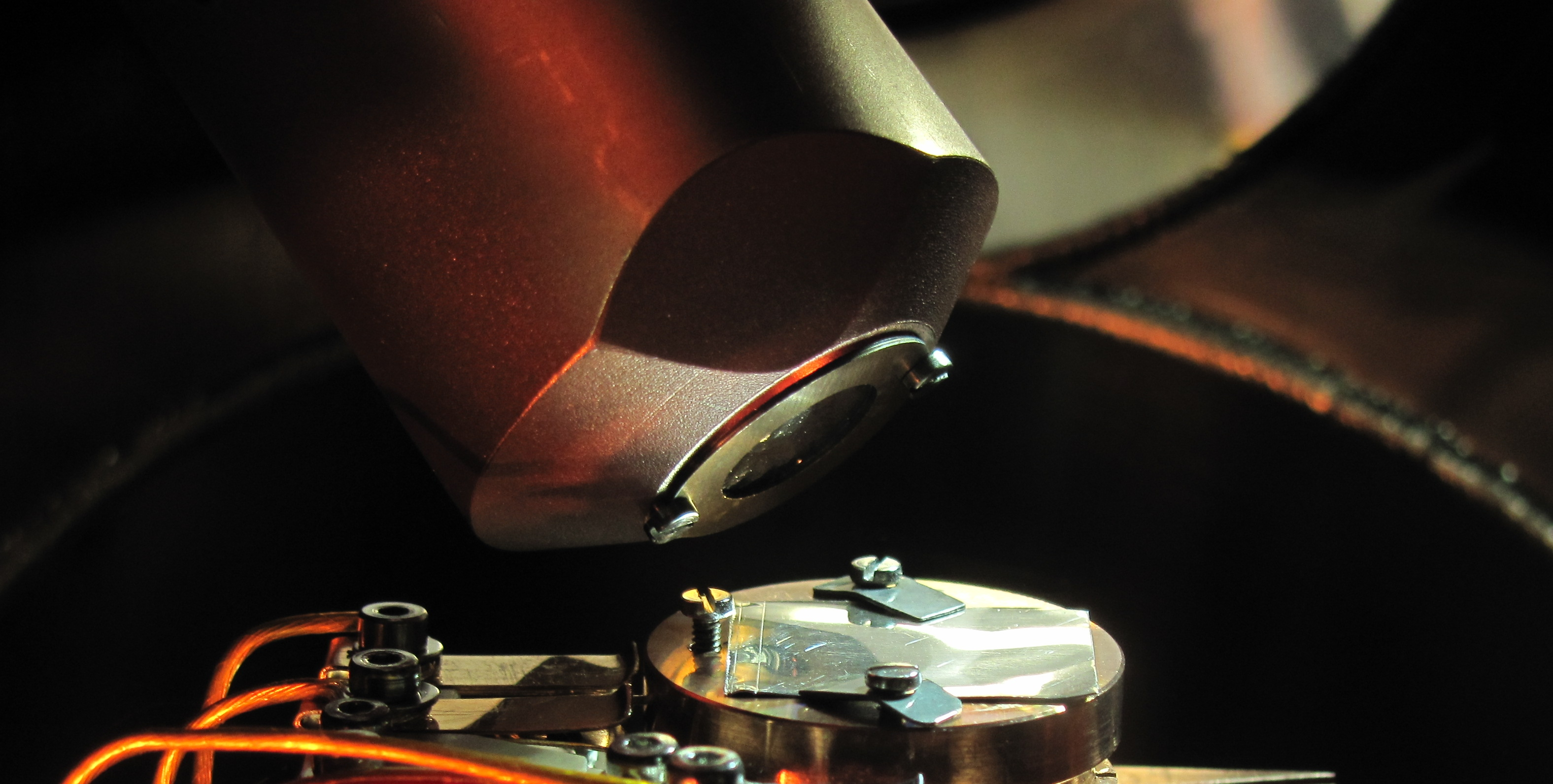 A silver target on a copper mount inside an XPS spectrometer under Ultra high vacuum conditions of about 6·10-8 mbar pressure, being irradiated from a water-cooled Aluminum/Magnesium X-Ray gun. This image was taken through one of the windows of this XPS spectrometer.